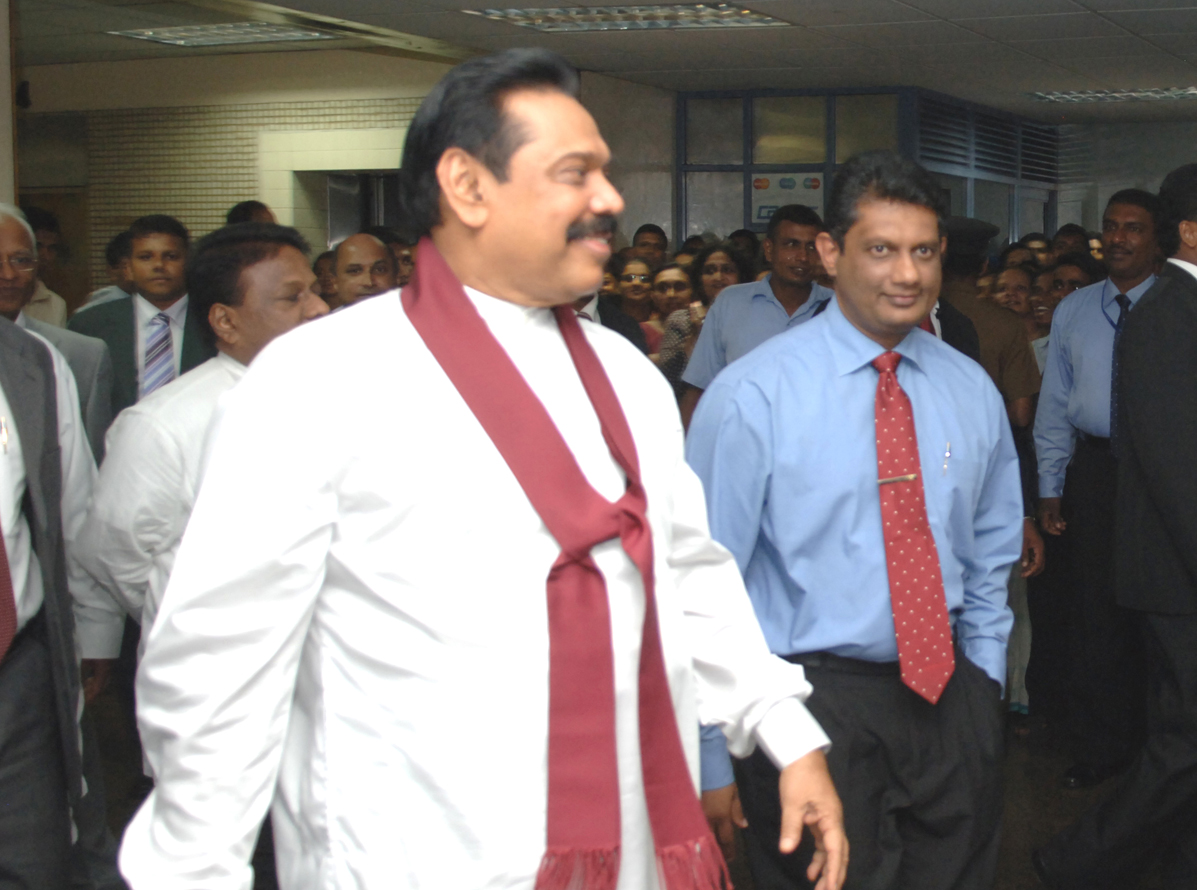 Presidents Mahinda Rajapaksa's Visit to SLIC after Government Take Over